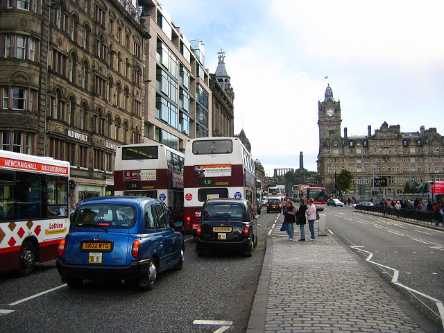 Princes Street, Edinburgh.